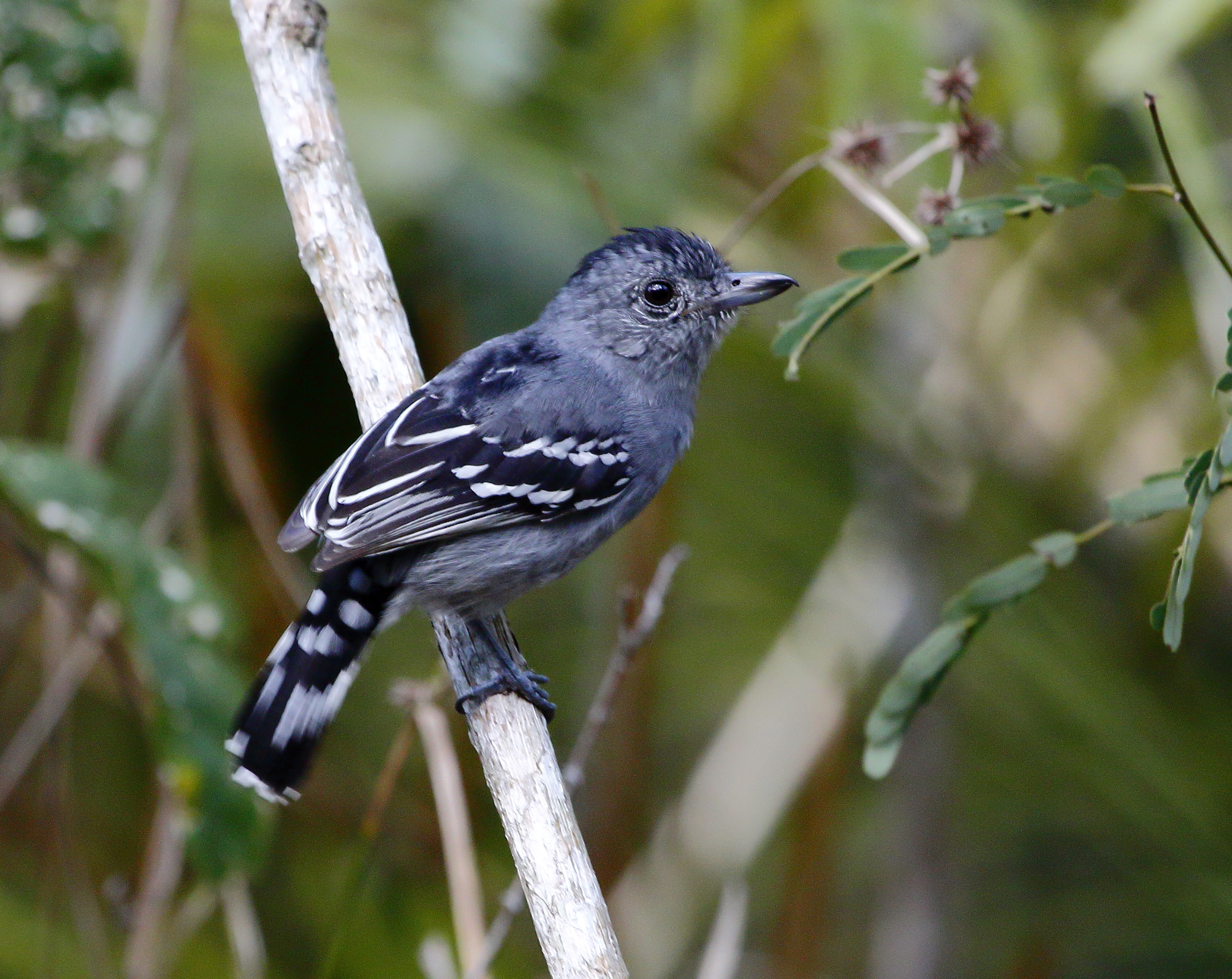 Sooretama slaty antbird male at Aracruz - Espirito Santo - Brazil